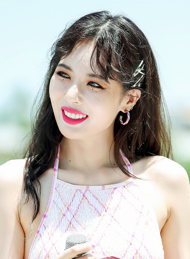 Hyuna at a fanmeeting on July 21, 2018.